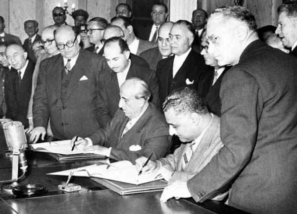 Gamal Abdel-Nasser and Shukri al-Quwatli signing the Syria-Egypt union pact. Behind Quwatli stands Abdullah al-Khani, the secretary-general of the Presidential Palace, and to his right is Prime Minister Sabri al-Asali and to al-Asali's right is Khalid al-Azm.